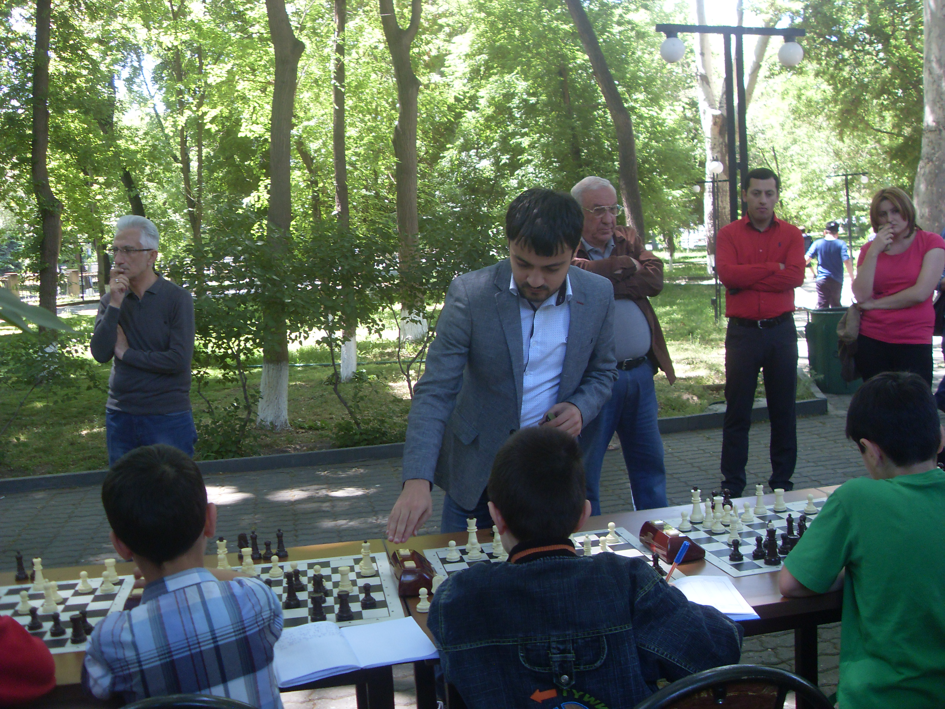 GM Zaven Andriasian, Yerevan, 9th May 2016